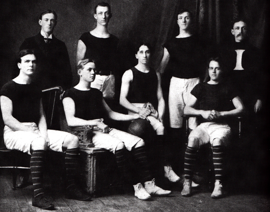 The 1900-01 Indiana University basketball team. First row (left to right): Phelps Darby, Ernest Strange, Jay Fitzgerald, Alvah Rucker; Second row: coach J.H. Horne, Charles Unnewehr, Earl Walker, manager Thomas Records.